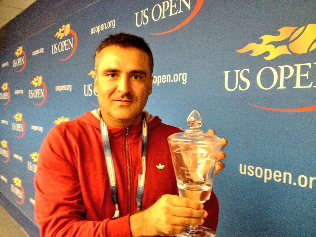 Stephane Houdet with the 2013 US Open trophy in New York. Wheelchair tennis men's single.